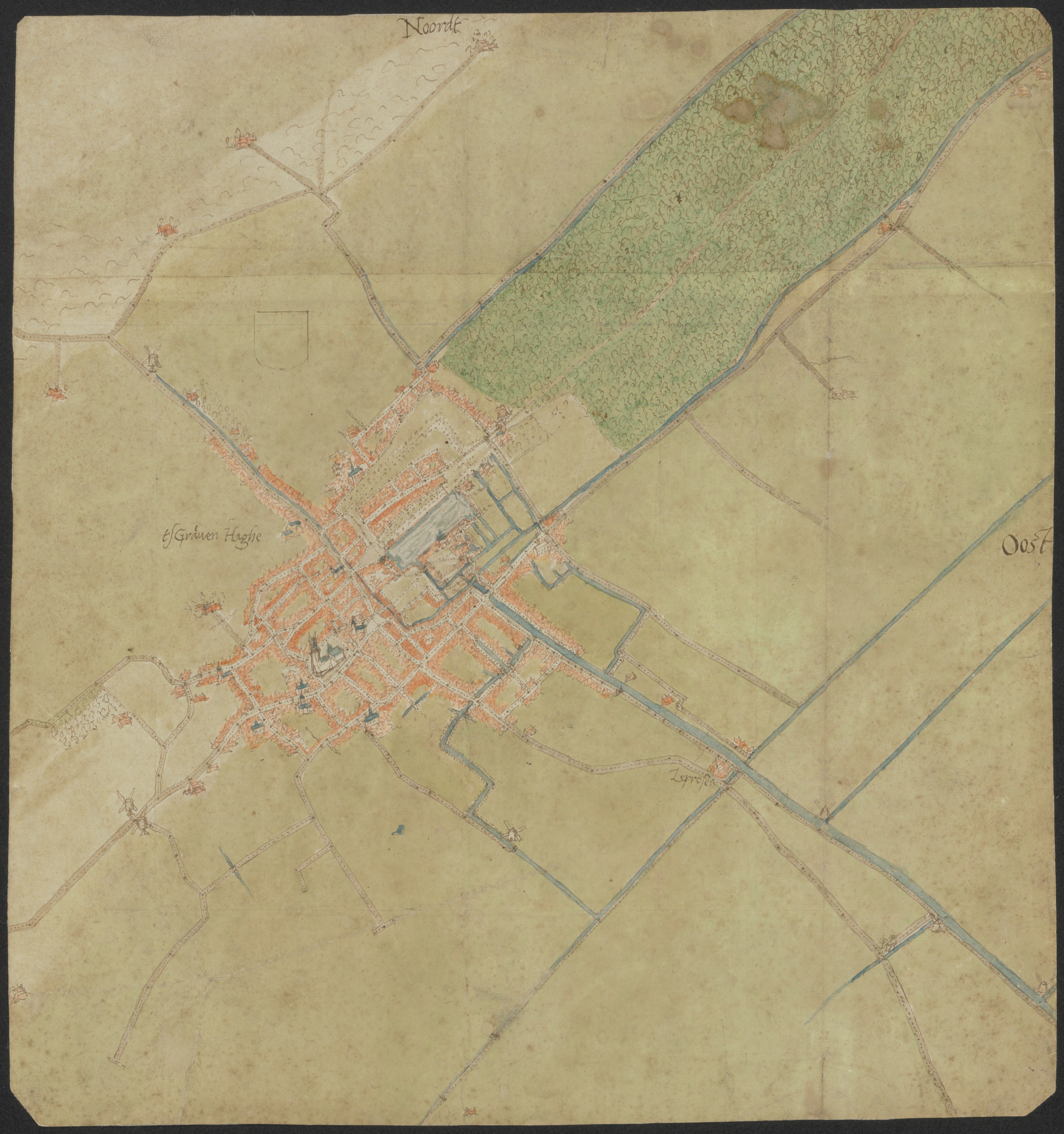 Map of The Hague, the Netherlands, from the year 1558, made by Jacob van Deventer.